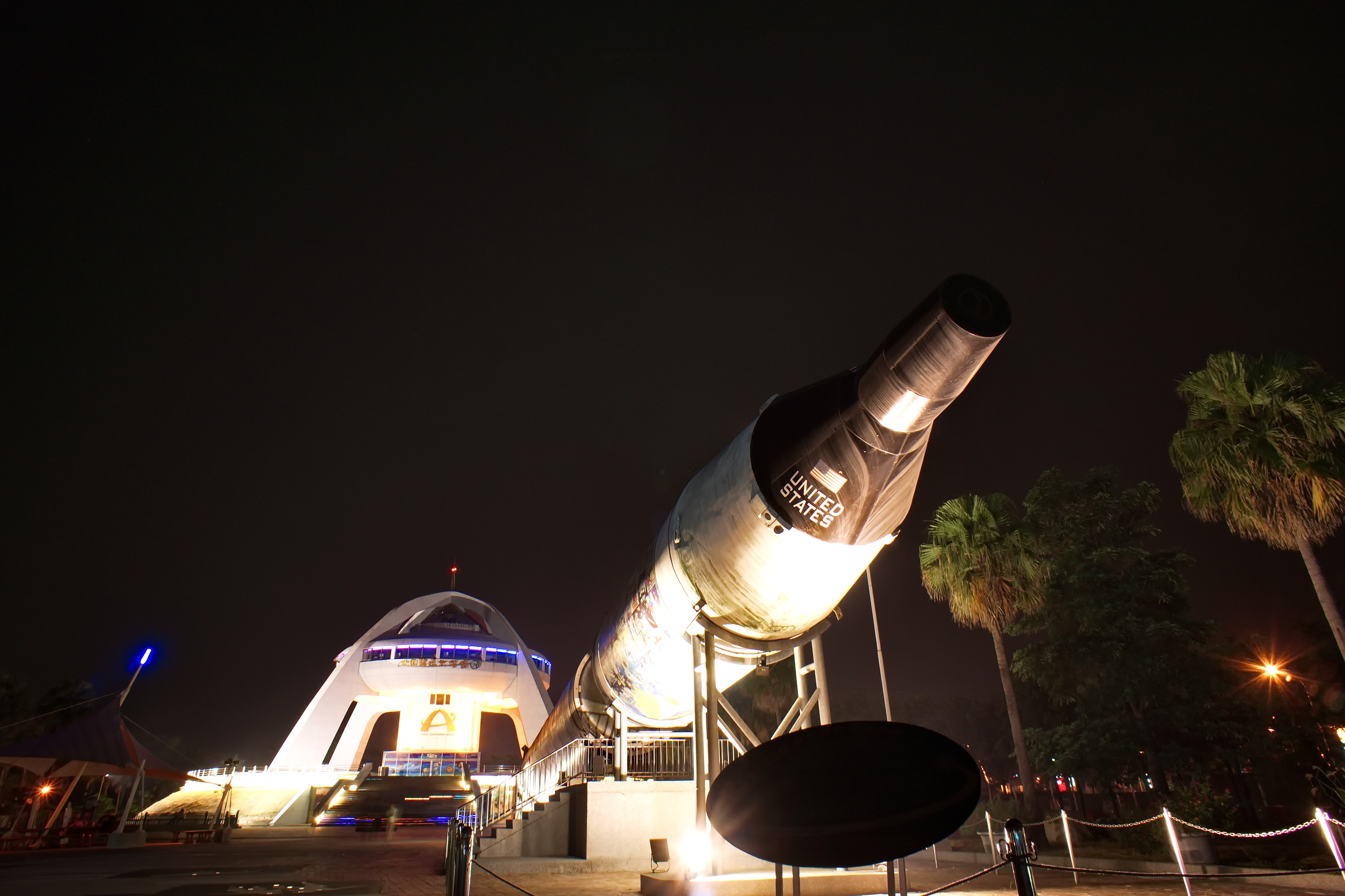 The Solar Exploration Center and Gemini Titan-II Launch Vehicle, Shuishang, Chiayi, Taiwan.